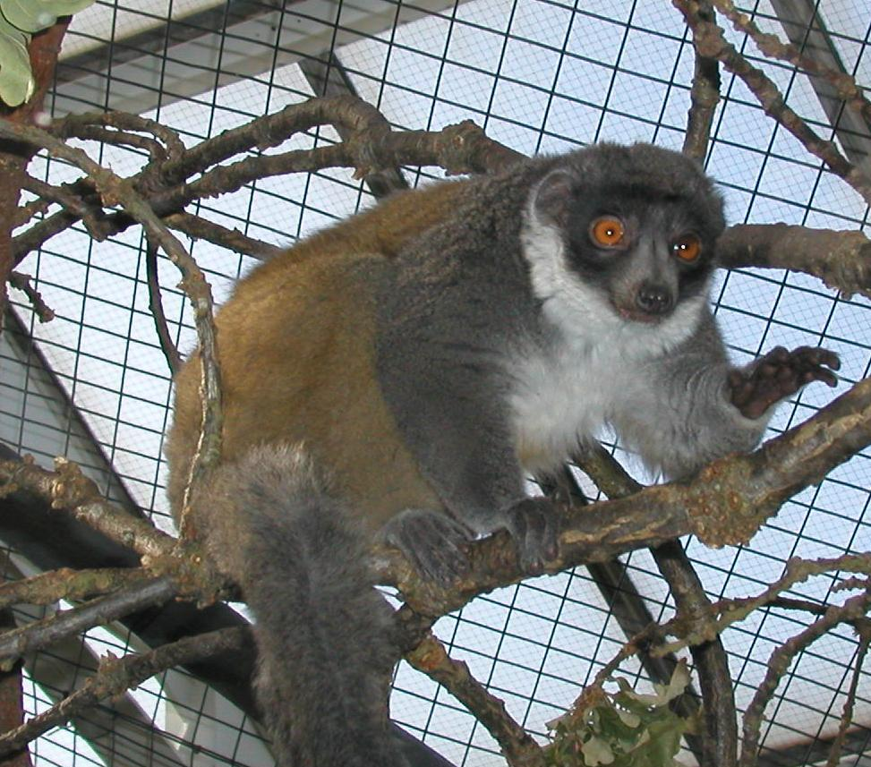 A Lac Aaotra Gentle Lemur (Hapalemur alaotrensis), also called Gray Lemur, at Crystal Gardens in Victoria, British Columbia, Canada